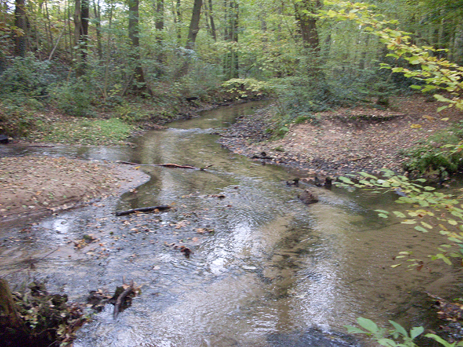 Mouth of the Westerholter Bach